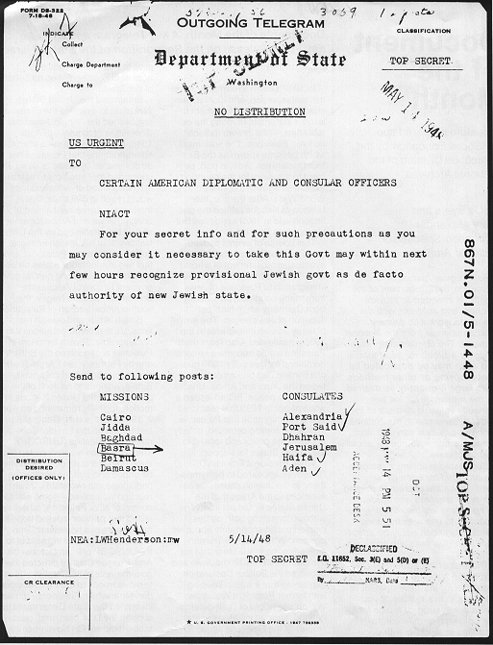 State Department Telegram to Diplomats and Consulates on the de facto recognition of Israel